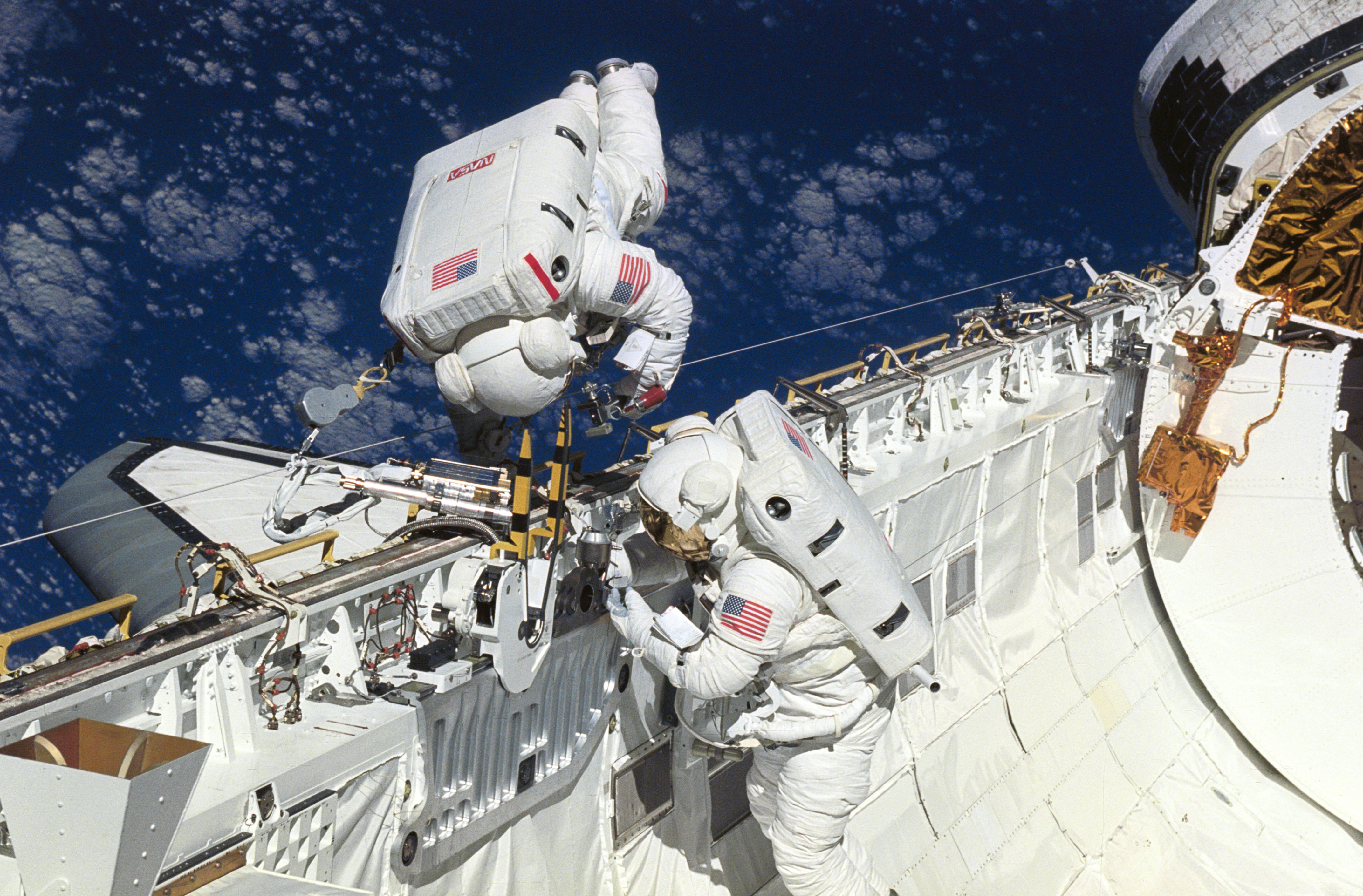 Astronauts James H. Newman and Carl E. Walz during the EVA on STS-51. Astronauts James H. Newman (in bay) and Carl E. Walz, mission specialists, practice space walking techniques and evaluate tools to be used on the first Hubble Space Telescope (HST) servicing mission scheduled for later this year. Walz rehearses using the Power Ratchet Tool (PRT), one of several special pieces of gear to be put to duty during the scheduled five periods of extravehicular activity (EVA) on the STS-61 mission.